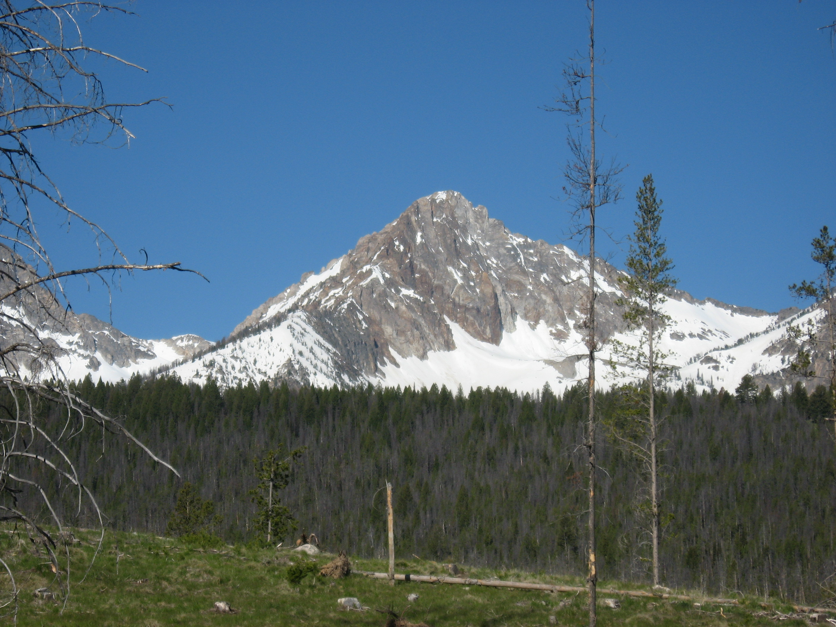 Williams Peak in the Sawtooth Mountains viewed from near the Stanley Ranger Station south of Stanley in Sawtooth National Recreation Area in Custer County, Idaho